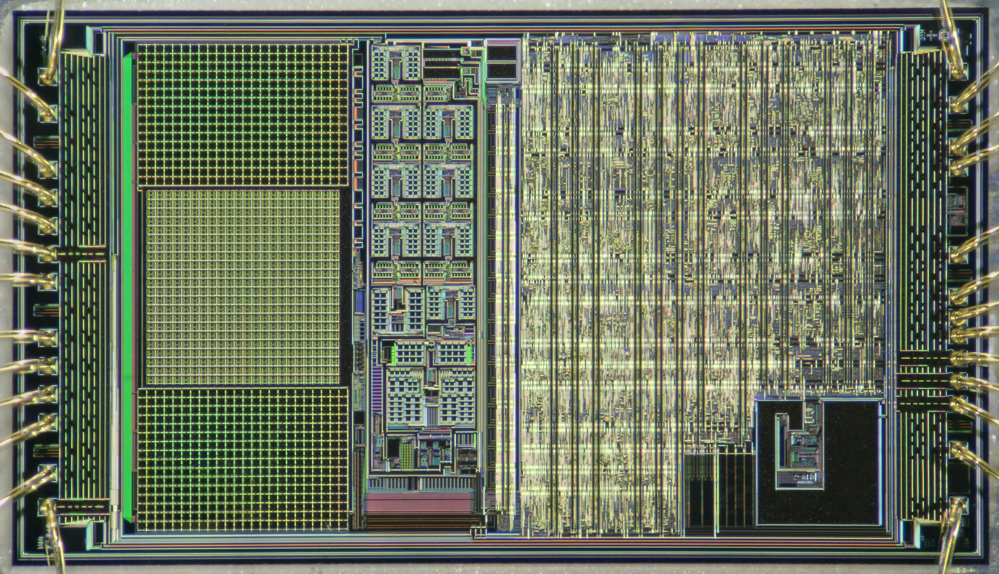 The ST Microelectronics OS MLT 04 sensor is a custom optical mouse sensor manufactured for Microsoft and advertised as the IntelliEye. The sensor integrate a 22x22 photodiodes optical sensing element.